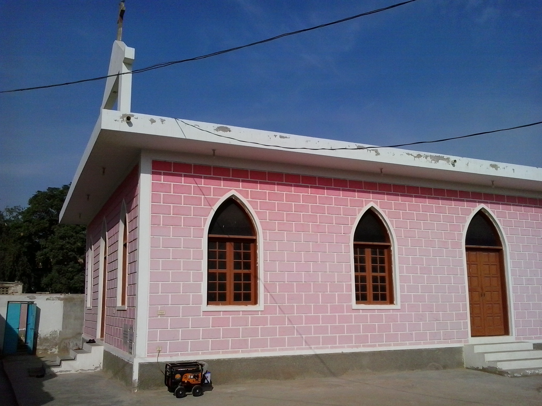 The St Steven's Church building as seen from the adjacent church compound.